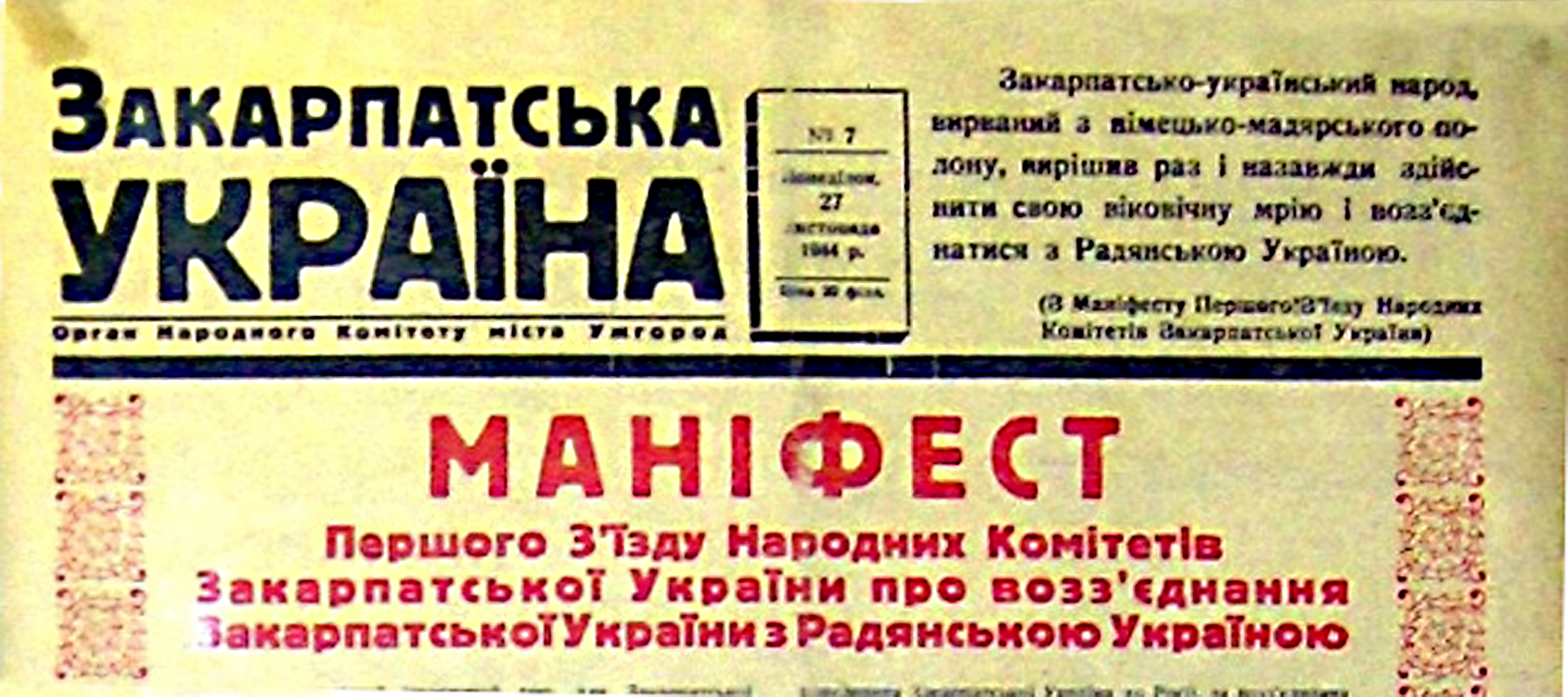 Daily news about the proclamation of the manifesto of reunification, on 27 Nov. 1944